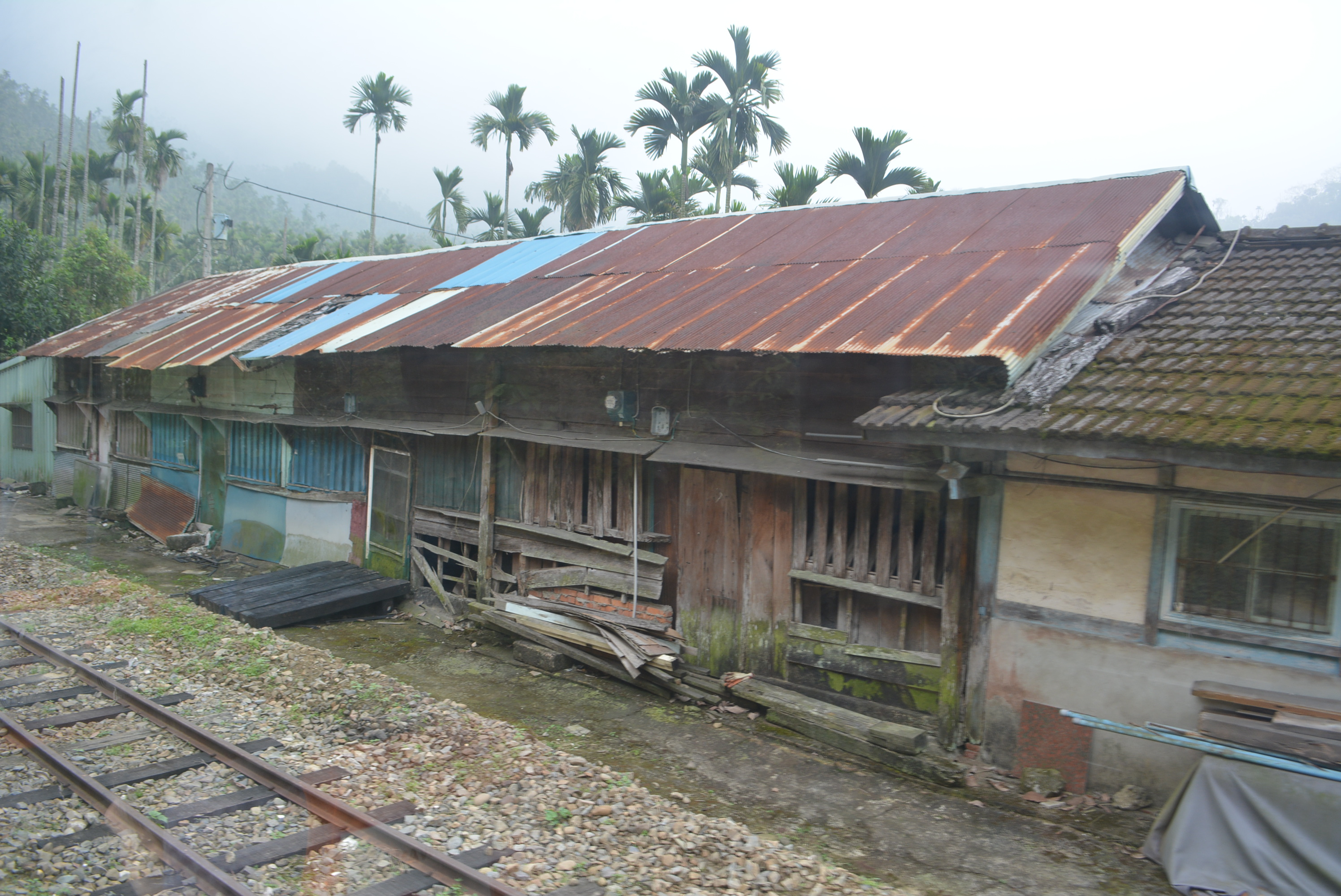 Mujiliao Station, Alishan Forest Railway.